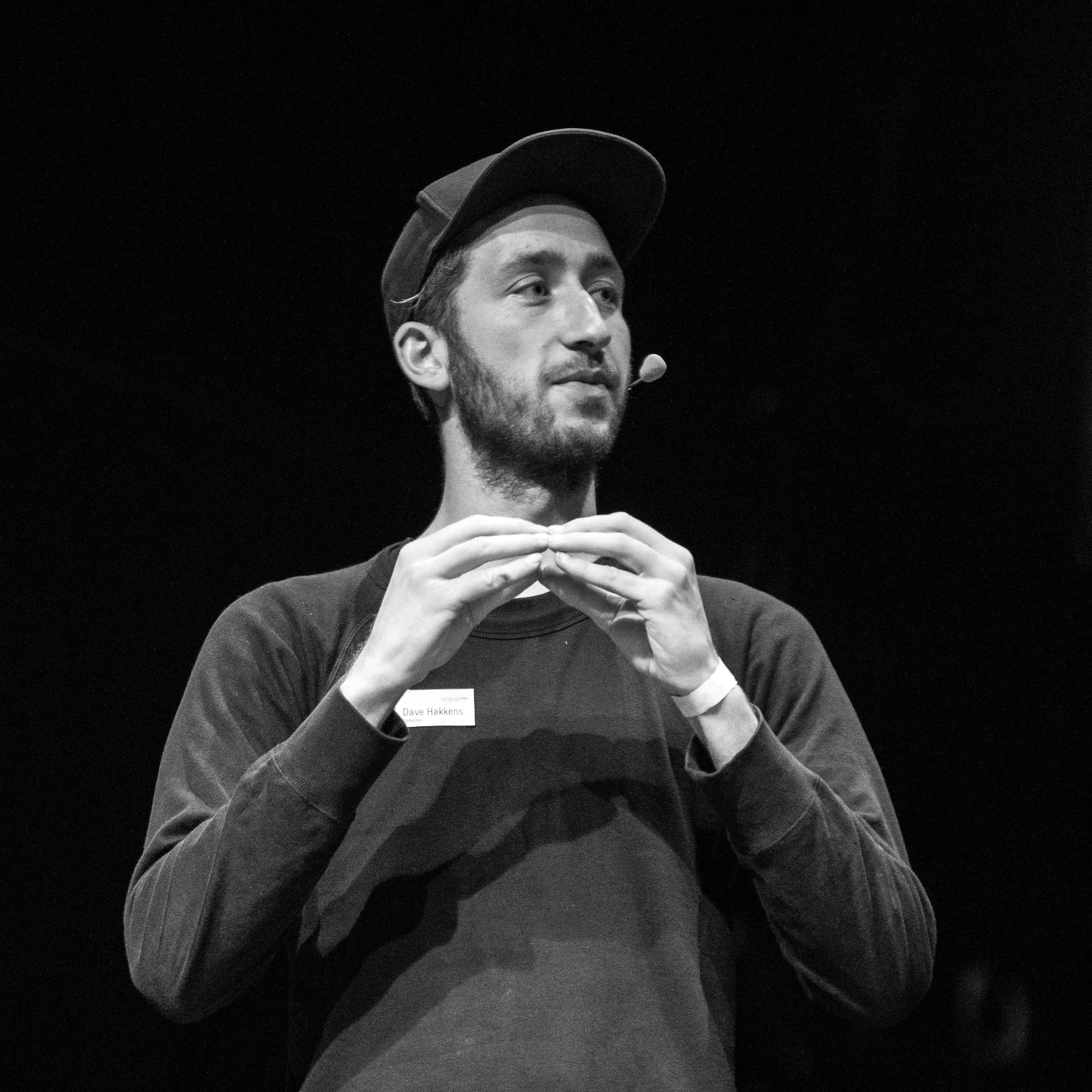 Dave Hakkens at the See-Conference 2017 in the Schlachthof Wiesbaden